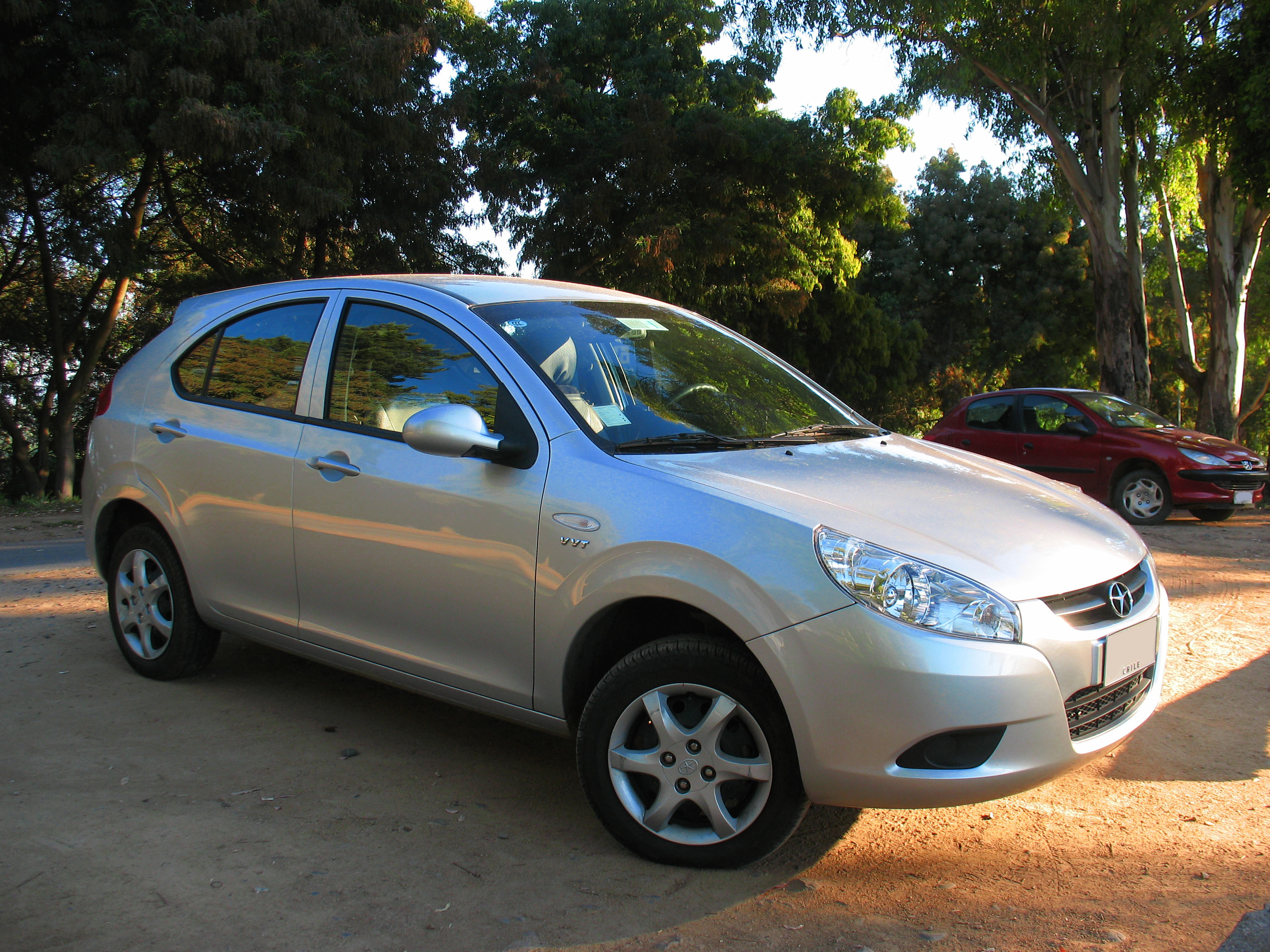 JAC J3 1.3 BE Sport 2013